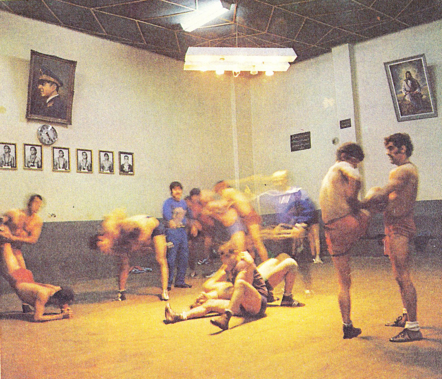 Athletes of the National sports federation of the deaf and dumb of Iran